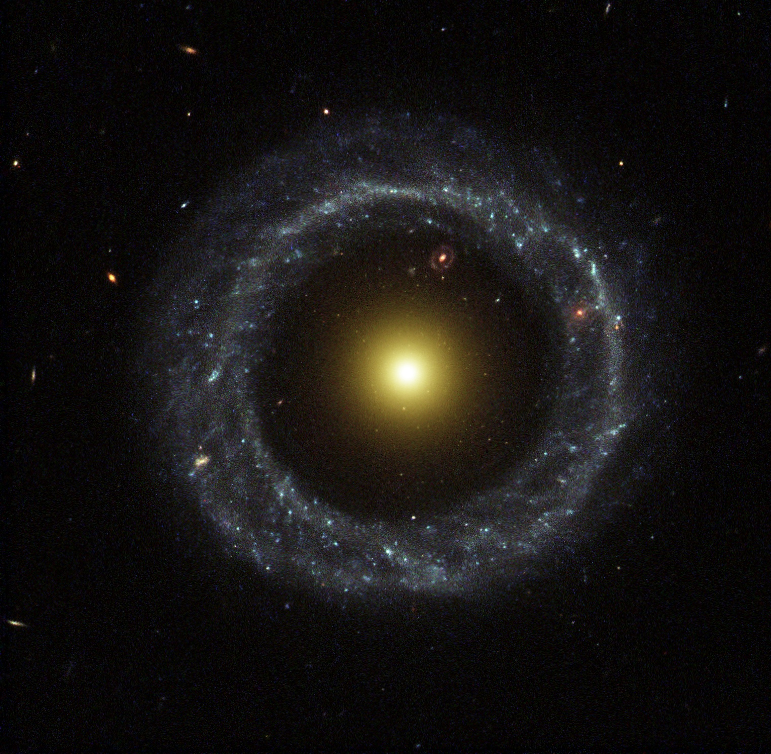 A nearly perfect ring of hot, blue stars pinwheels about the yellow nucleus of an unusual ring galaxy known as Hoag's Object. This image from NASA's Hubble Space Telescope captures a face-on view of the galaxy's ring of stars, revealing more detail than any existing photo of this object. The image may help astronomers unravel clues on how such strange objects form. The entire galaxy is about 120,000 light-years wide, which is slightly larger than our Milky Way Galaxy. The blue ring, which is dominated by clusters of young, massive stars, contrasts sharply with the yellow nucleus of mostly older stars. What appears to be a "gap" separating the two stellar populations may actually contain some star clusters that are almost too faint to see. Curiously, an object that bears an uncanny resemblance to Hoag's Object can be seen in the gap at the one o'clock position. The object is probably a background ring galaxy. Ring-shaped galaxies can form in several different ways. One possible scenario is through a collision with another galaxy. Sometimes the second galaxy speeds through the first, leaving a "splash" of star formation. But in Hoag's Object there is no sign of the second galaxy, which leads to the suspicion that the blue ring of stars may be the shredded remains of a galaxy that passed nearby. Some astronomers estimate that the encounter occurred about 2 to 3 billion years ago. This unusual galaxy was discovered in 1950 by astronomer Art Hoag. Hoag thought the smoke-ring-like object resembled a planetary nebula, the glowing remains of a Sun-like star. But he quickly discounted that possibility, suggesting that the mysterious object was most likely a galaxy. Observations in the 1970s confirmed this prediction, though many of the details of Hoag's galaxy remain a mystery. The galaxy is 600 million light-years away in the constellation Serpens. The Wide Field and Planetary Camera 2 took this image on July 9, 2001.